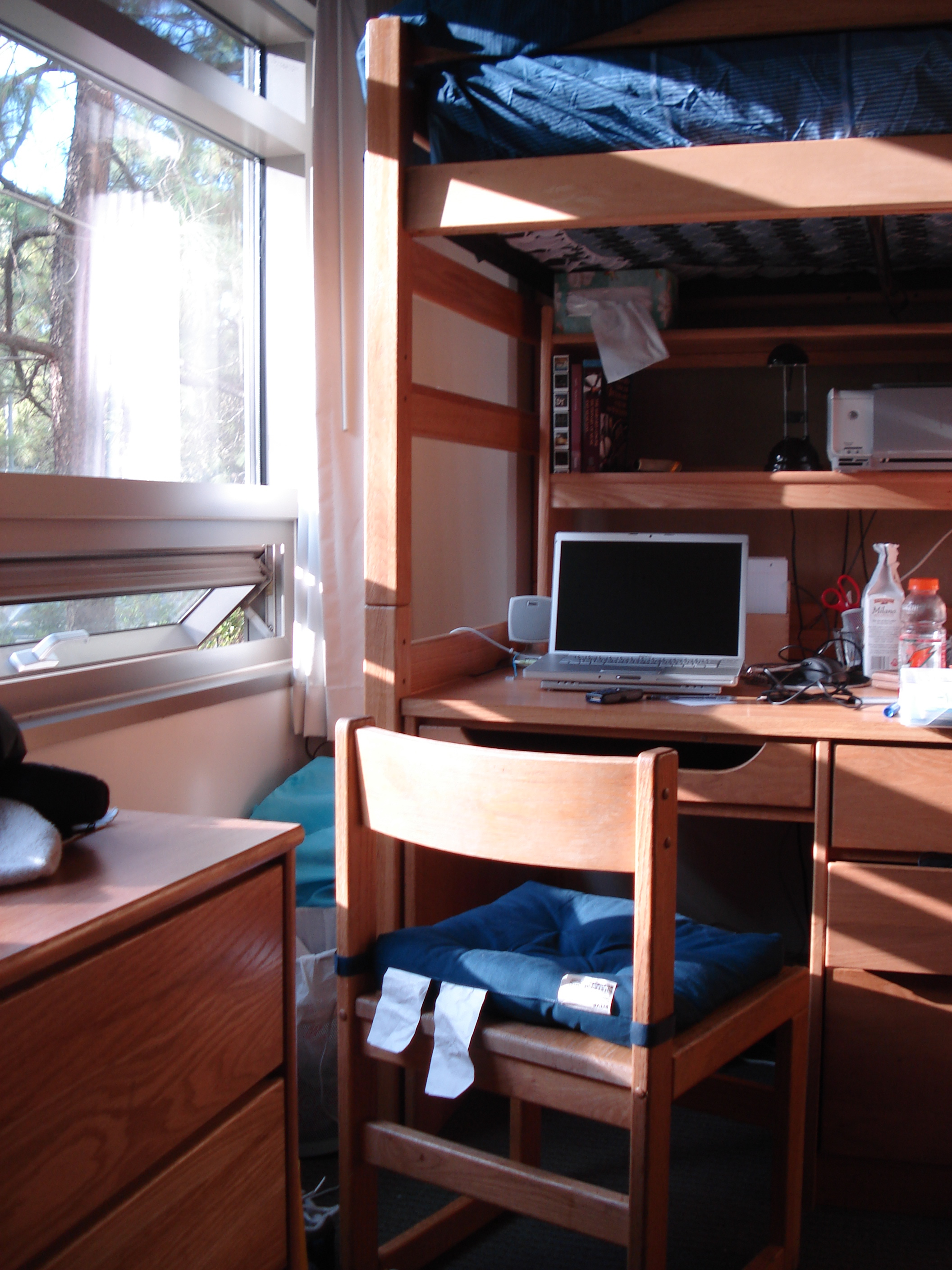 UCLA dorm room (of Hedrick Summit)